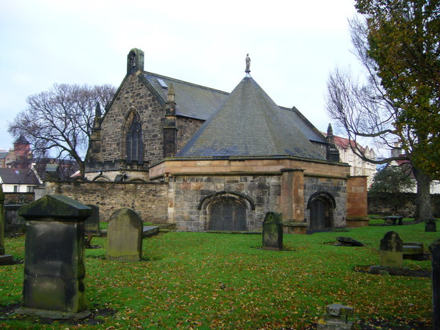 St. Triduana's Well, Restalrig, Edinburgh. The building in front of the kirk dates back to the 1460s-70s when James III founded a collegiate chapel whose priests were to say masses for him. Only the lower of two storeys survived the kirk falling victim to the Reformation ordinance that any "monument to idolatrie" should be "raysit and utterlei castin downe and destroyed". The surviving chamber continued in use as a burial vault. During later restoration its propensity to flood led to the realisation that this was St. Triduana's Well, famed as a place of pilgrimage in the Middle Ages. Before the Reformation the Chapel had housed an altar dedicated to the obscure Pictish female saint who was credited with the ability to cure the blind. Pilgrims came here to bathe their eyes in the hope of a miraculous cure. The chapel was extensively restored in 1836 and 1906, when the present roof was added.